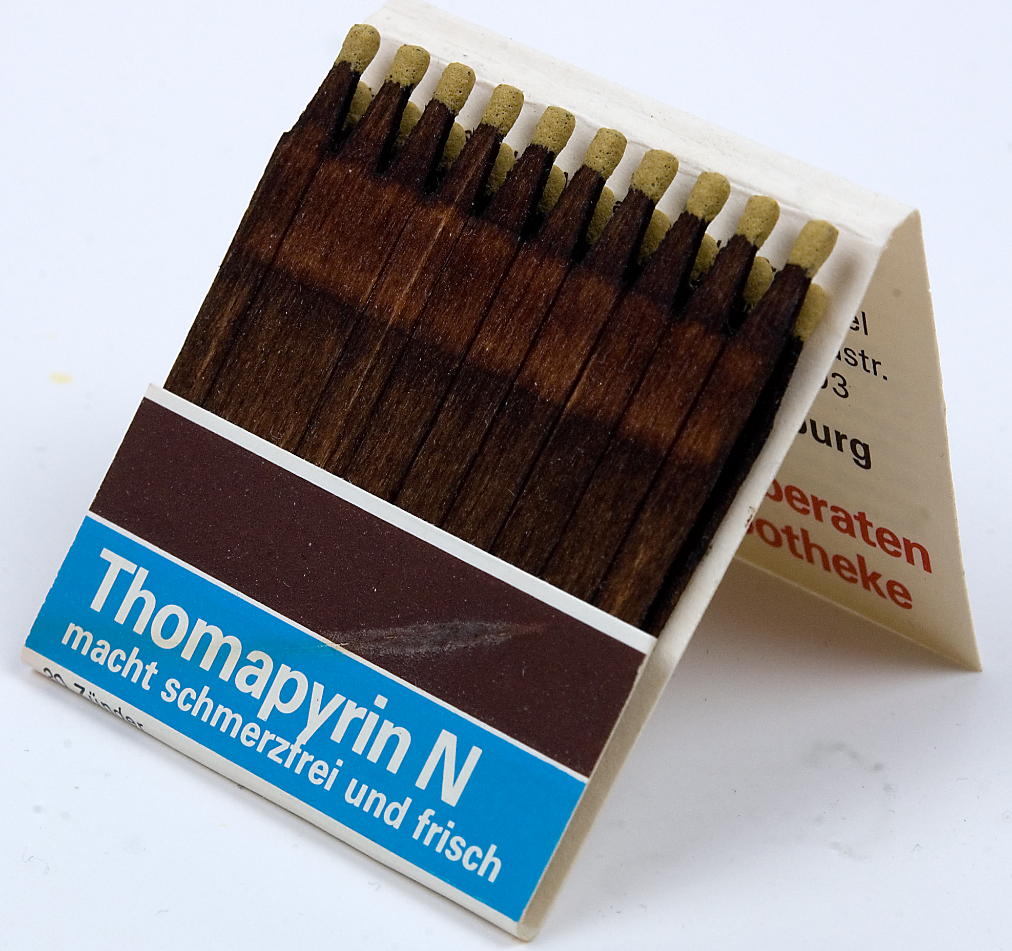 Matchbook advertising for Thomapyrin analgesic